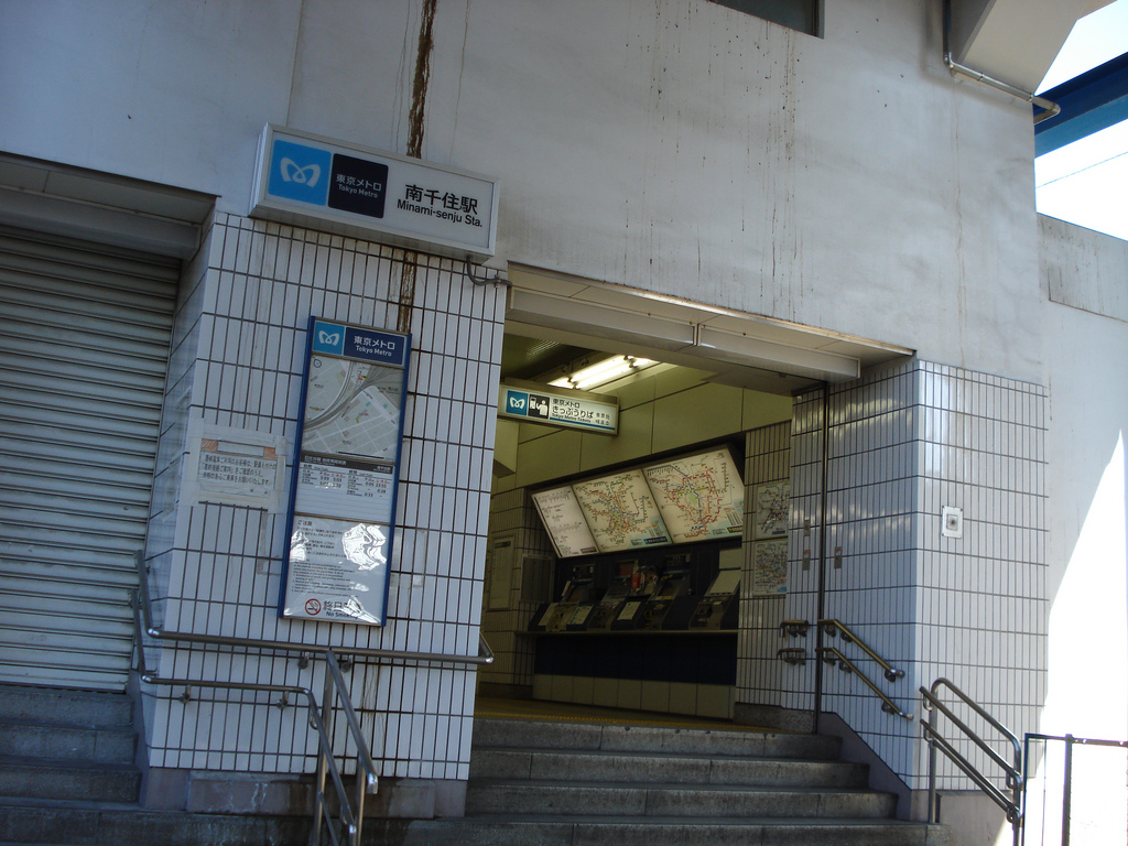 Minami Senju Station (Tokyo Metro) entrance. Minami Senju is a ward of Arakawa Tokyo Japan